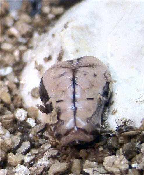 Borneo Short-tailed Python, Python breitensteini hatching with egg tooth visible. Animal courtesy of Austin Reptile Service.